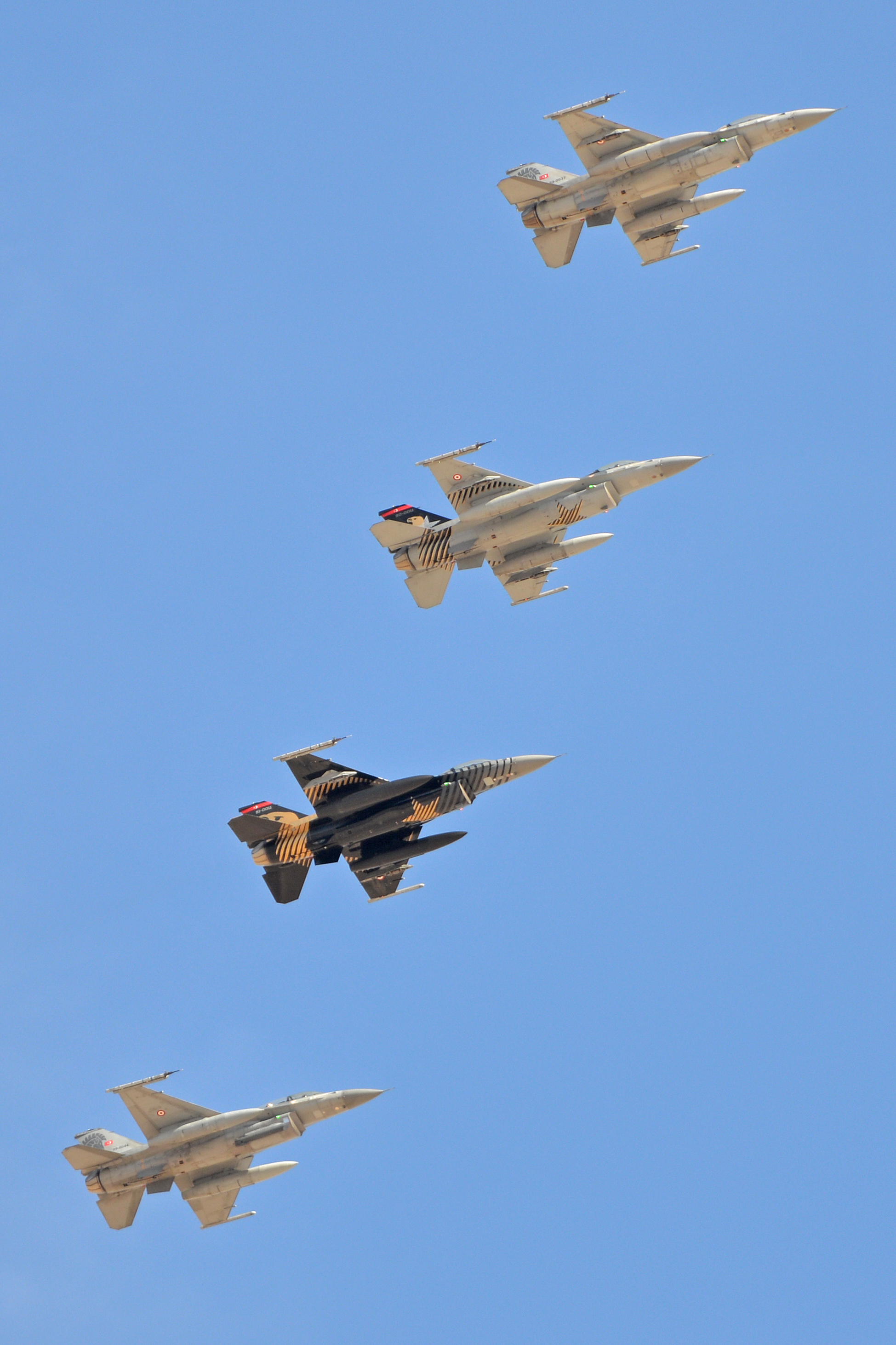 Four Turkish Air Force F-16s run in to break for landing. Leading is F-16C ’89-0037’ c/n 4R-055, part of 132 Filo, followed by F-16Cs ‘90-0011’ (c/n 4R-070), & ’91-0011’ (c/n 4R-091) which are from 141 Filo and are in ‘Solo Turk’ display schemes and finally F-16D ’89-0044’ c/n 4S-14, also from 132 Filo. Seen returning from a mission as part of Red Flag 16-2. Nellis AFB, NV, USA. 1st March 2016